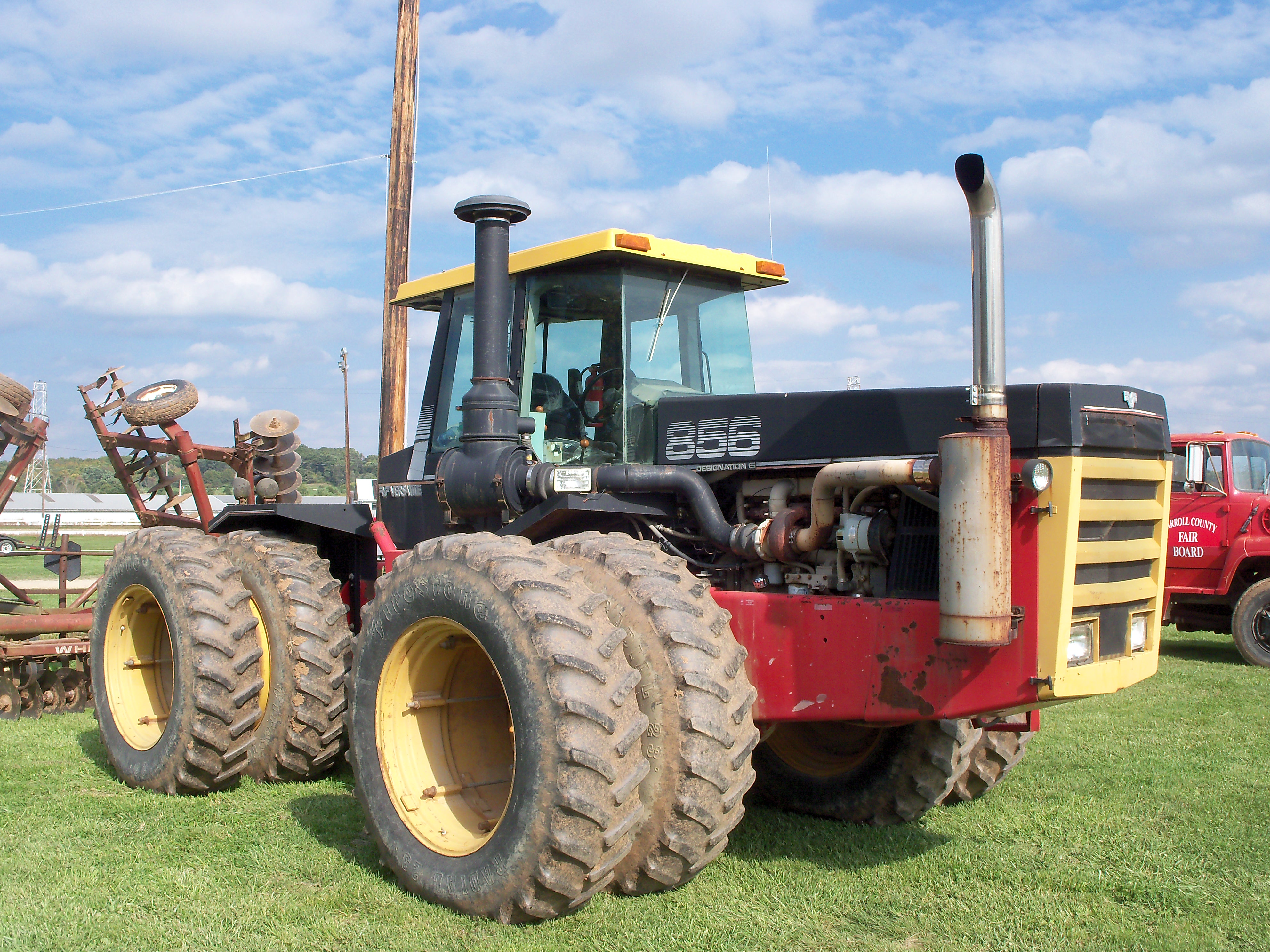 Versatile tractor, model 856, designation 6. Seen at tractor show in Carrollton, Ohio